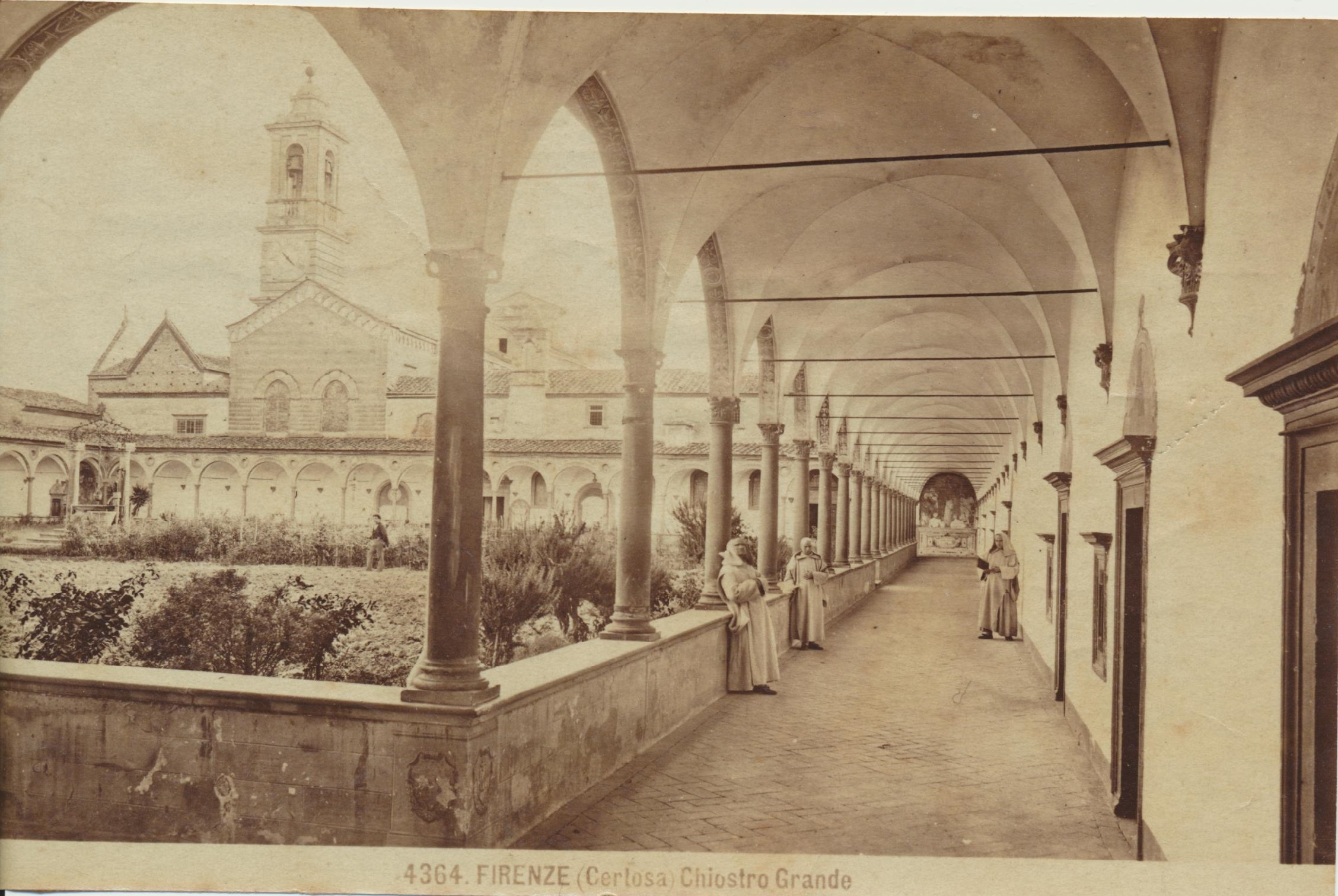 Florence, Charterhouse cloister (Certosa), sepia photo ca.1878